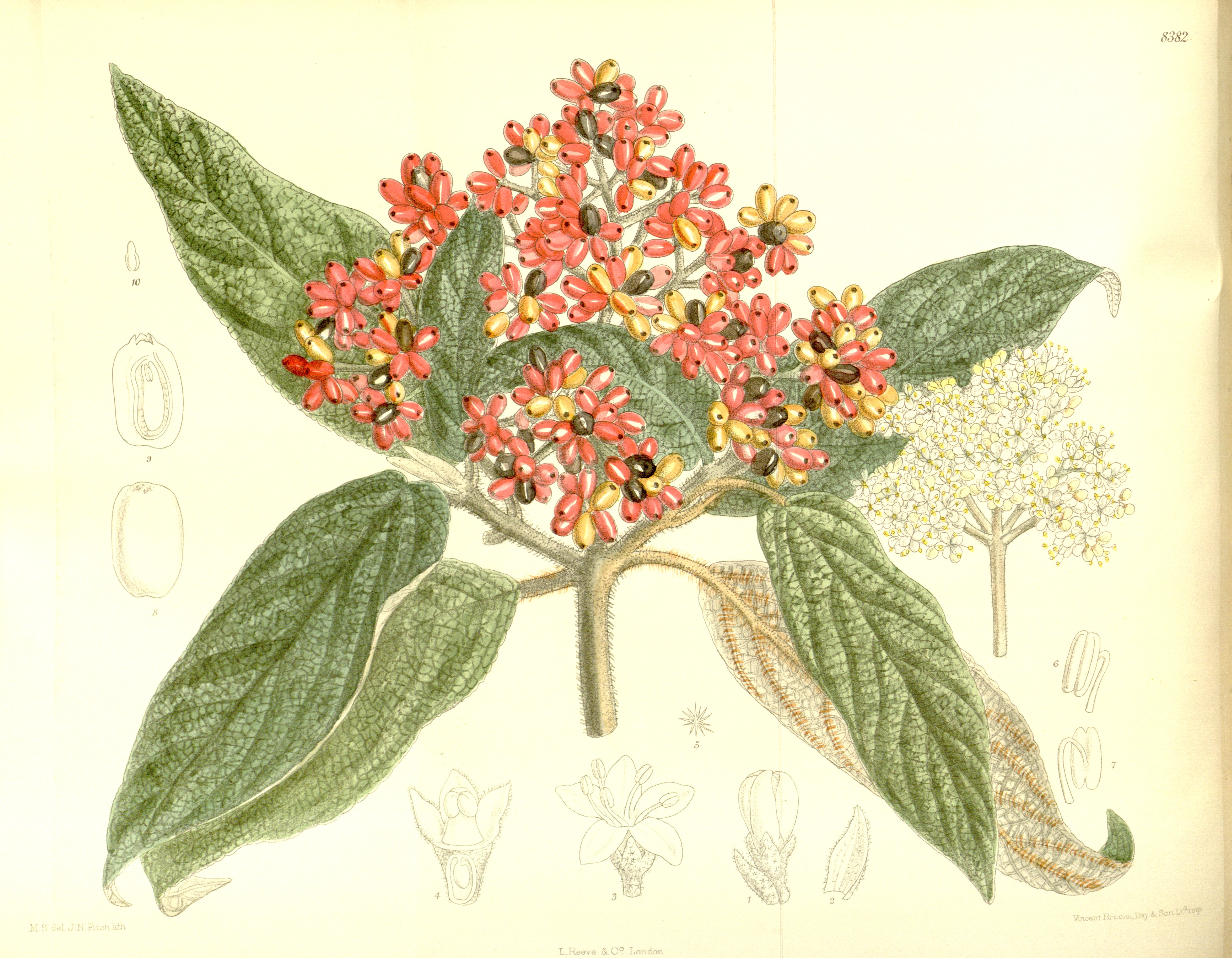 Viburnum rhytidophyllum, Adoxaceae